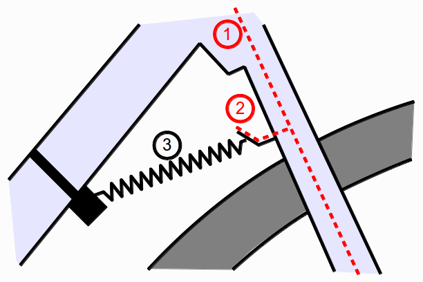 Bicycle Steering Damper; 1: rotation axis; 2: lever; 3: spring